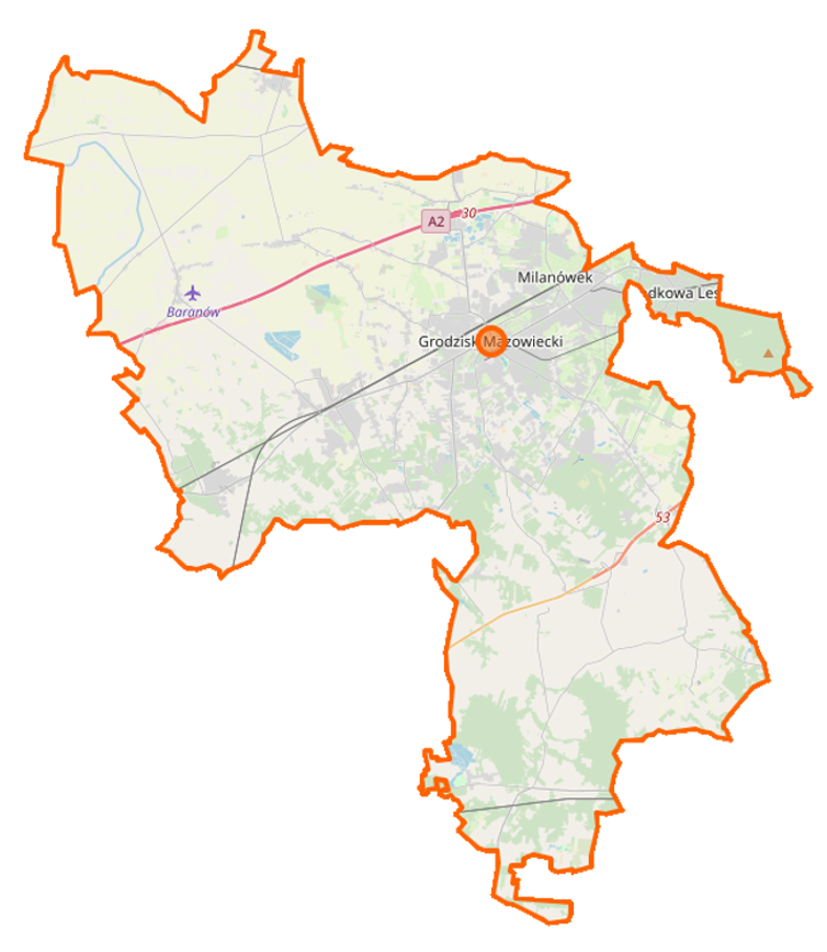 Map of Powiat grodziski, Poland This map of Powiat grodziski (województwo mazowieckie) was created from OpenStreetMap project data, collected by the community. This map may be incomplete, and may contain errors. Don't rely solely on it for navigation.